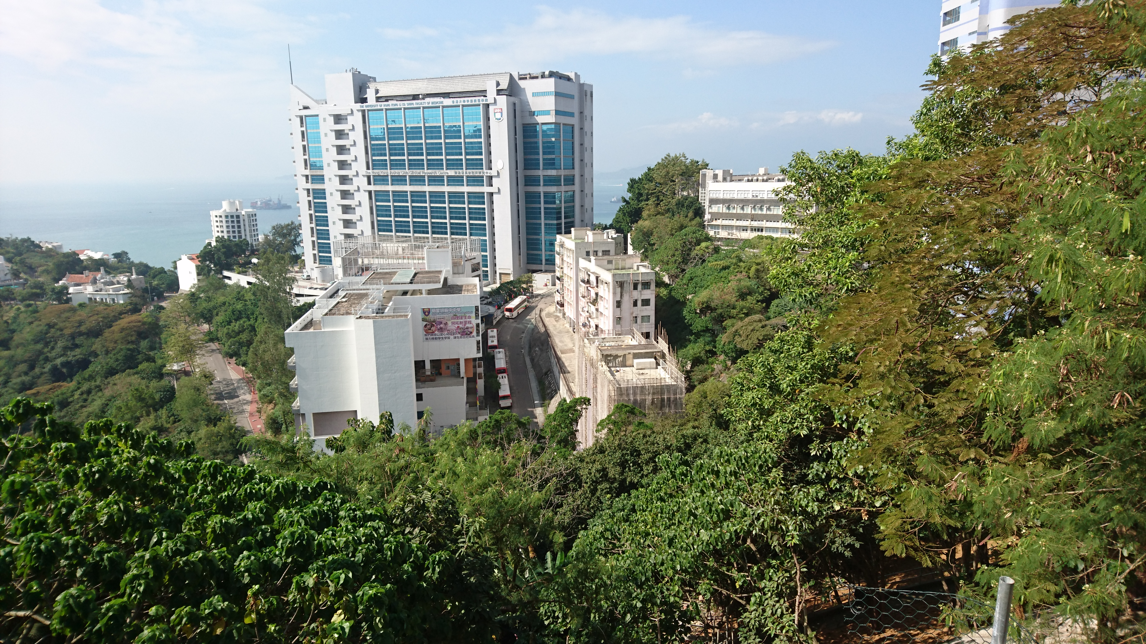 Northcote Close viewed from Pok Fu Lam Road